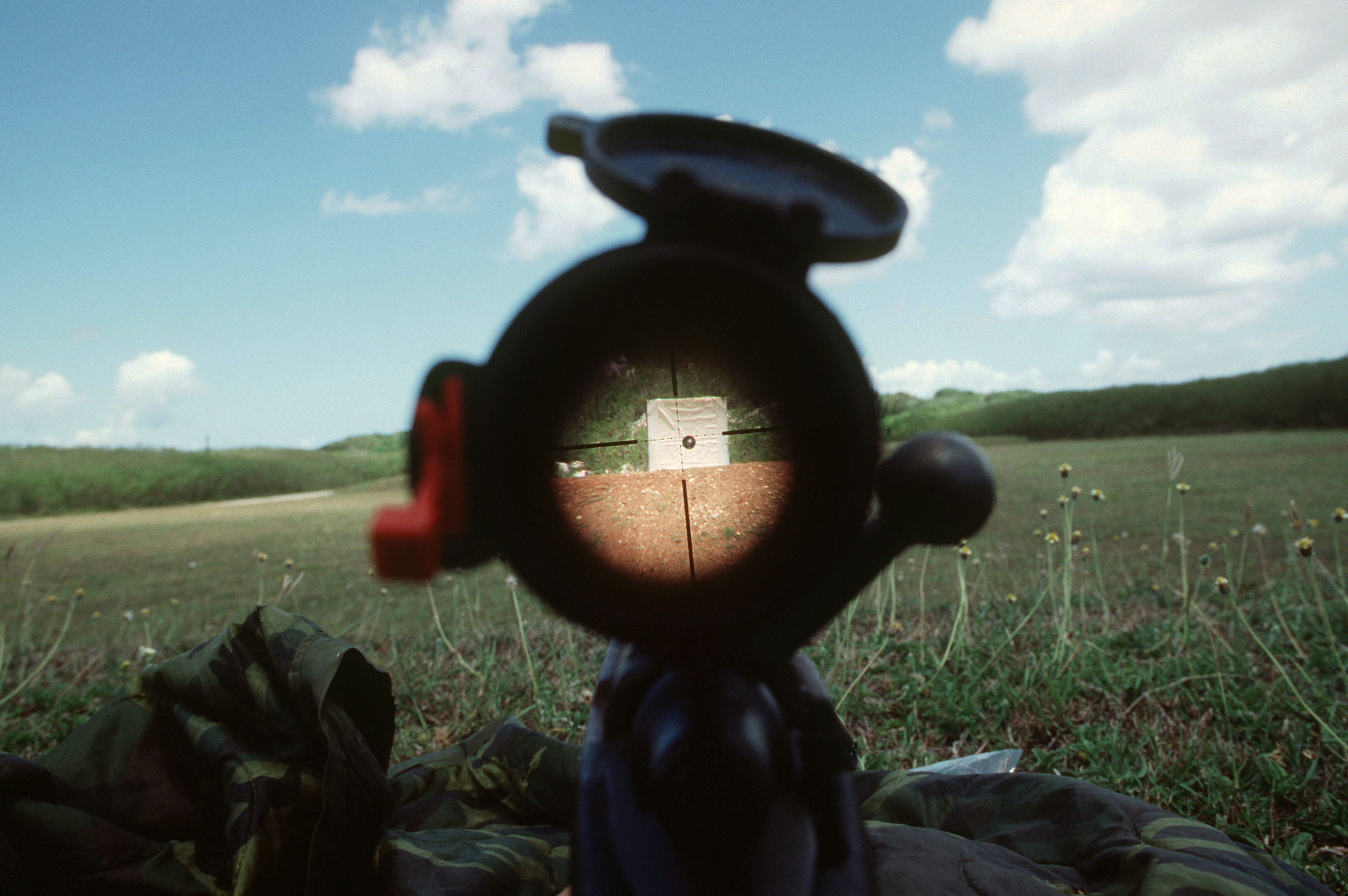 A view through the 20-X power telescopic gunsight mounted atop an M-91 .308 caliber sniper rifle of a target. The range to the target is 300 yards. View taken at the Naval Activities Guam shooting range.